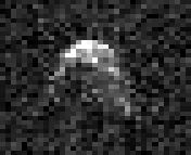 Radar Image of Near-Earth-Asteroid (4660) Nereus, taken by the Goldstone Radar.